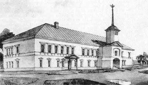 The Kharkov Collegium (1721-1840) – a parish and secular closed secondary school in Kharkov.